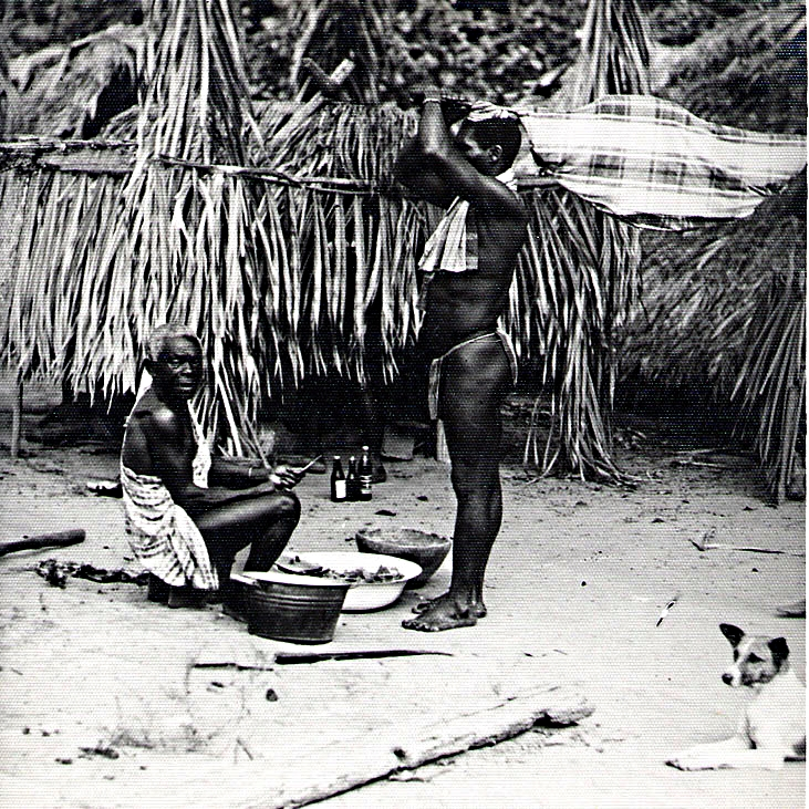 I inherited this photo from my father, Ted Hill, who took it while travelling along the Suriname River in 1955.